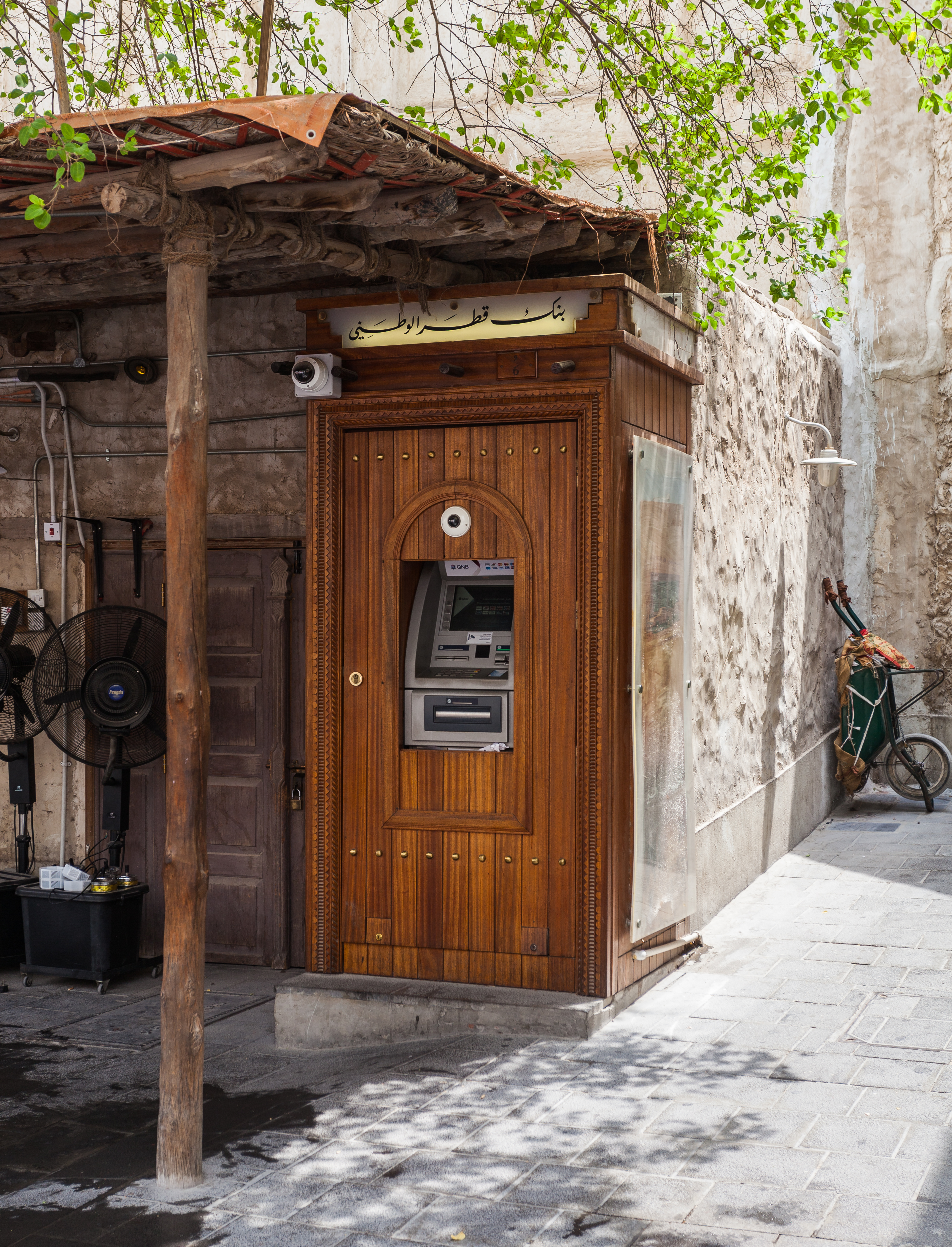 Souq Waqif, Doha, Qatar